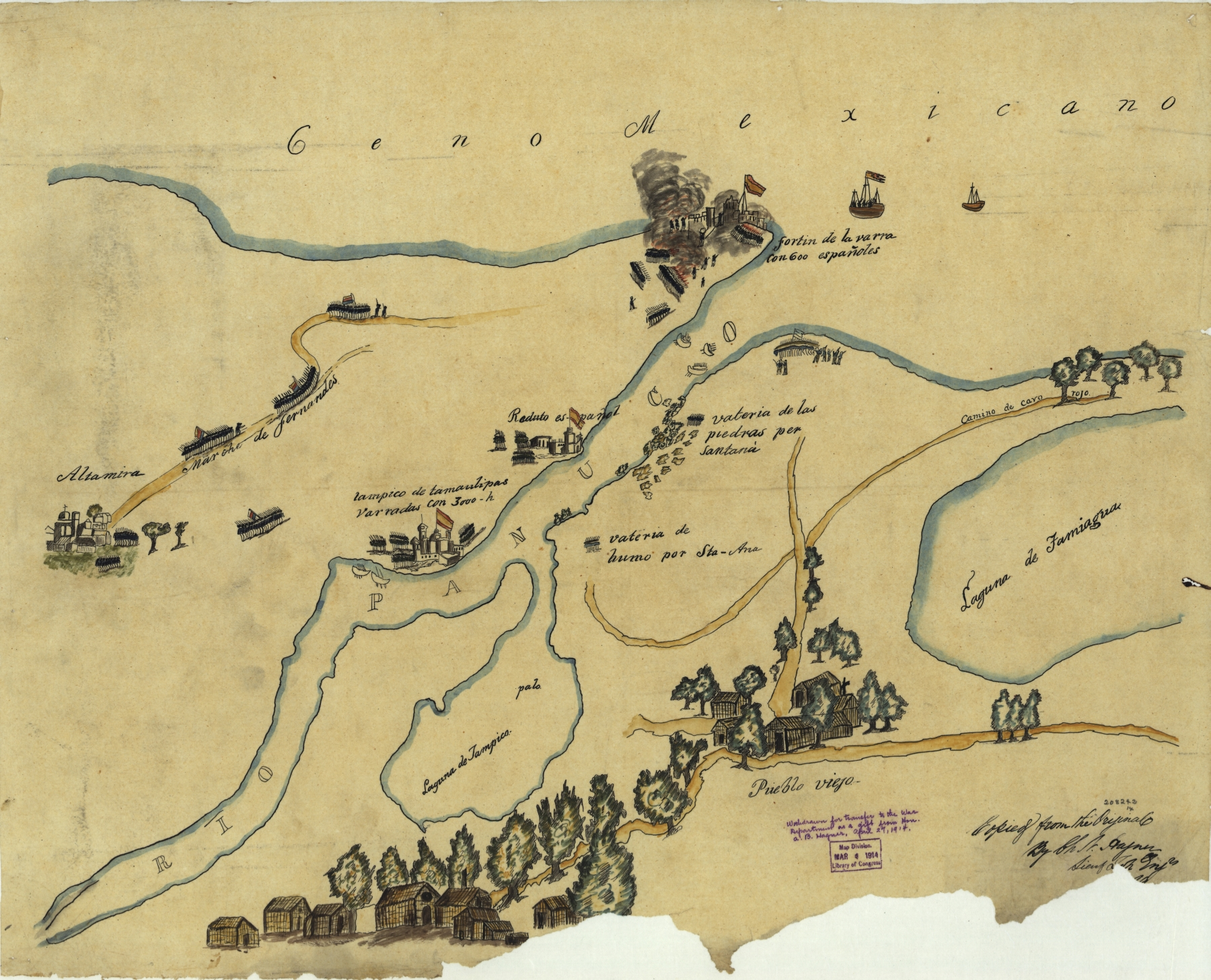 Map depicting battle against Isidro Barradas in vicinity of Tampico, Mexico, in 1829